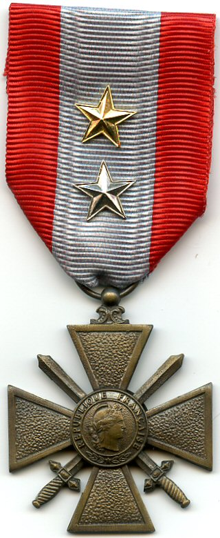 Croix de guerre des théâtres d'opérations extérieures - Obverse (France) - (War Cross for Foreign Operational Theaters)